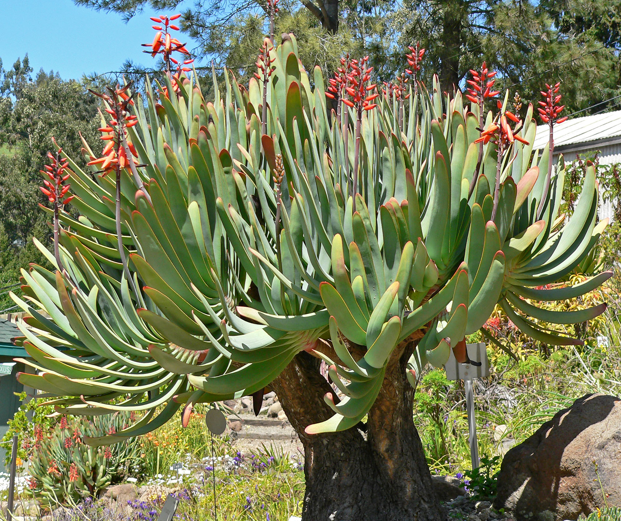 Aloe plicatilis at the University of California Botanical Garden, Berkeley, California